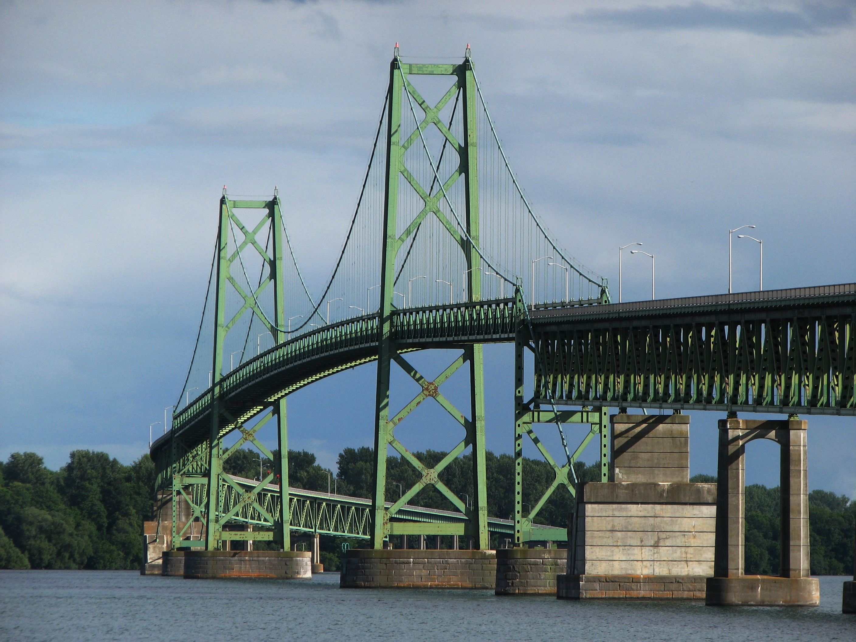 The Ogdensburg–Prescott International Bridge between United-States and Canada over the Saint Lawrence River